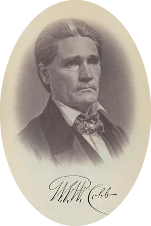 Portrait of William Robert Winfield Cobb with his signature